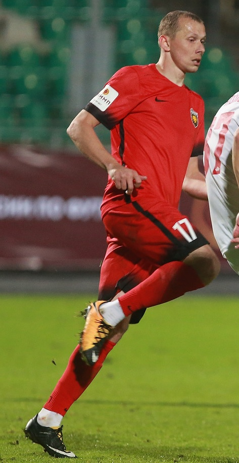 Aleksei Pugin with FC Ararat Moscow in a Russian Cup game against FC SKA-Khabarovsk.